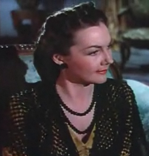 Cropped screenshot of Lynn Bari from the trailer for the film Blood and Sand.